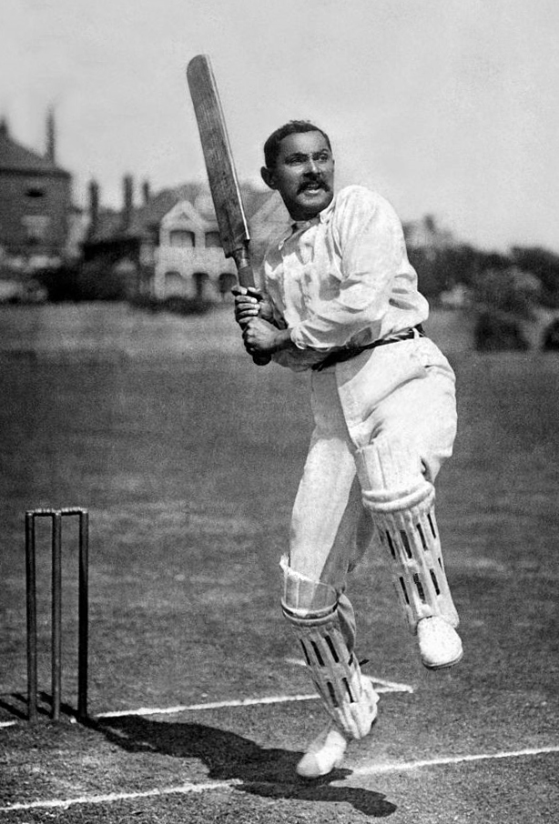 Kumar Shri Ranjitsinhji, Sussex and England, circa 1905.